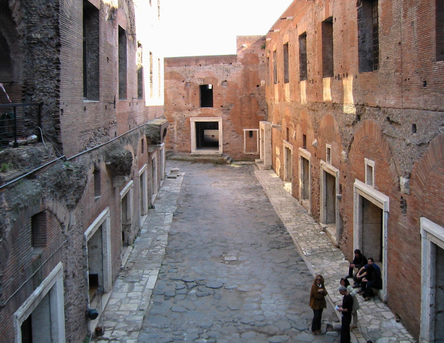 The Via Biberatica at Trajan's Market in Rome